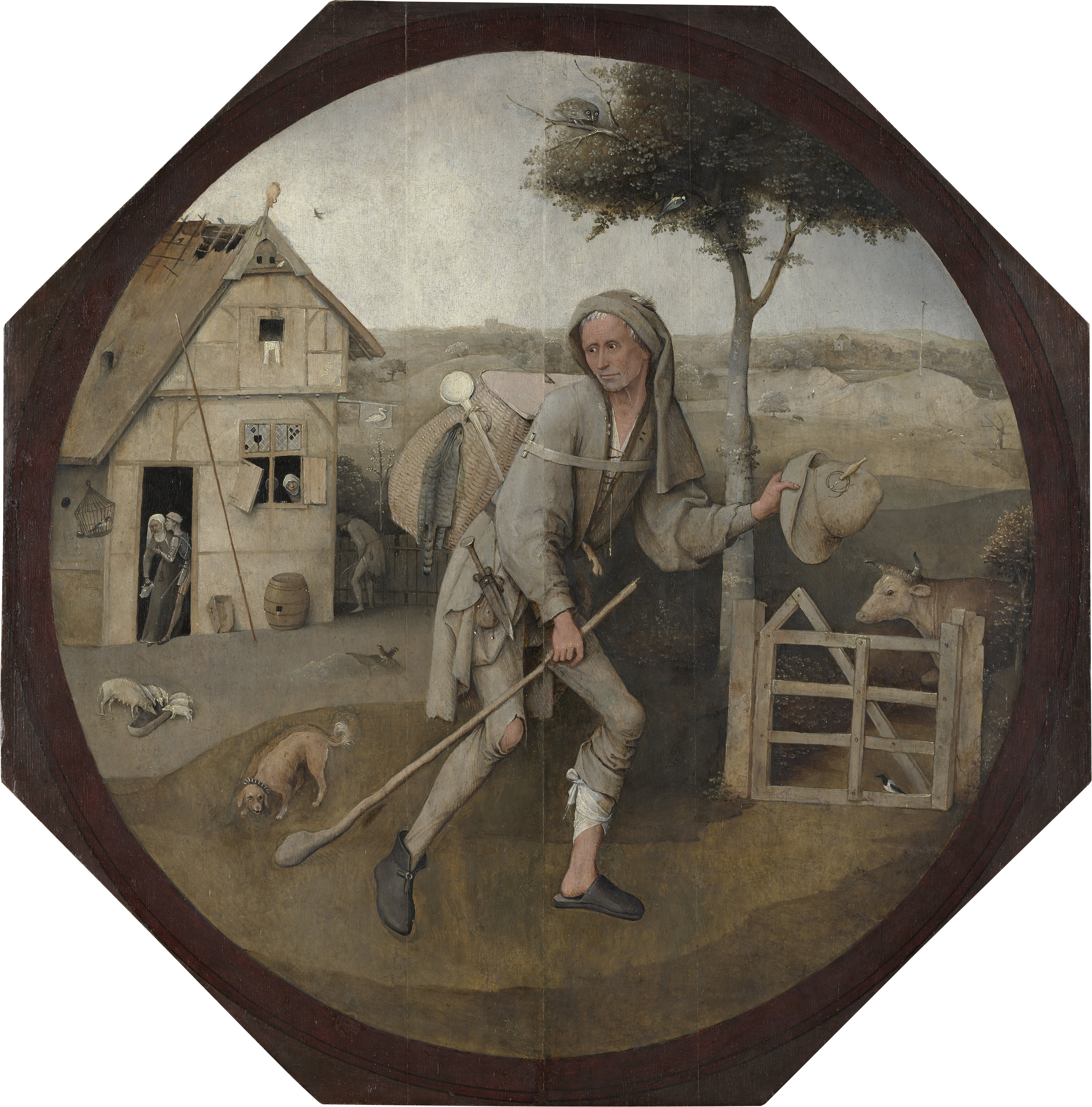 A thin man wearing grey clothes is walking, holding his hat in his left hand. In his right hand he is holding a stick fending off an angry dog. On his back he is carrying a large basket. This type of basket was normally used by peddlers in the 16th century in the Netherlands. To the left an inn (and possibly also a brothel). To the right a path leading into a field where a cow and a magpie seem to watch the man. Above the man, in a tree, an owl is gazing at a great tit. In the background a gallows stands on a hill.